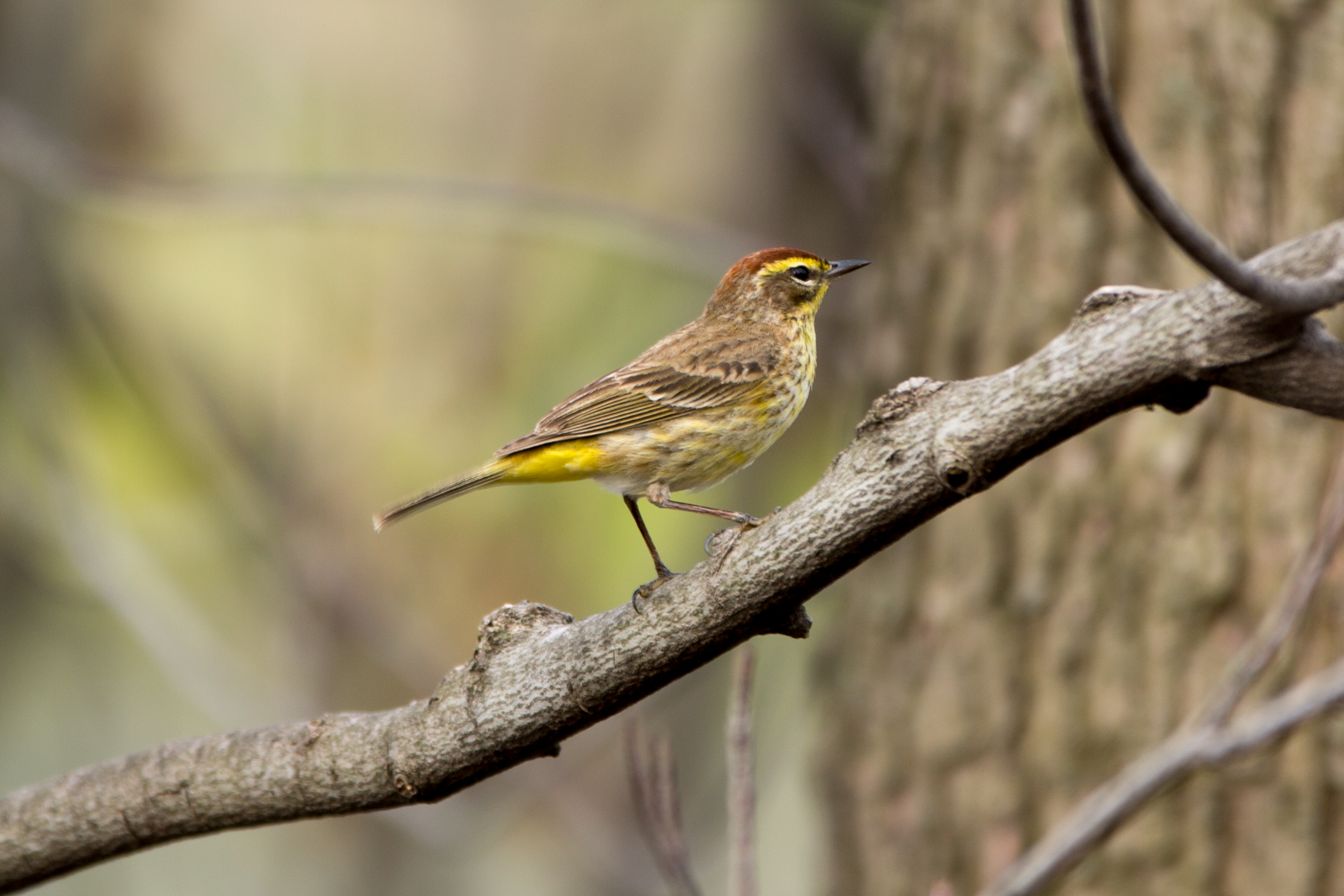 Bird in North Pond, Chicago